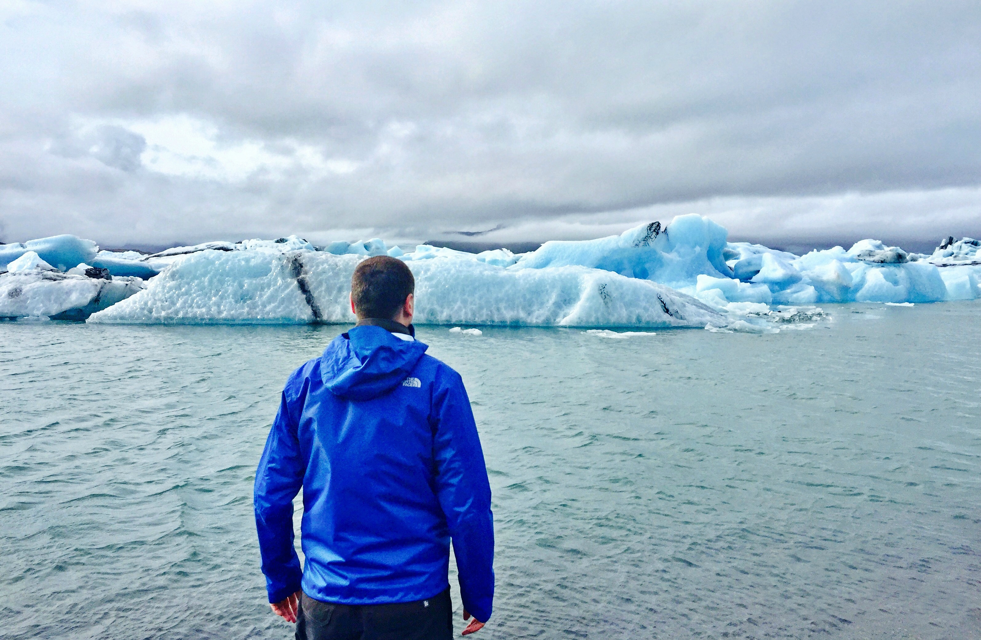 Man standing in front of Jökulsárlón Glacier Lagoon